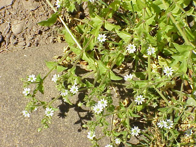 Species: Myosoton aquaticum Family: Caryophyllaceae Image No. 2